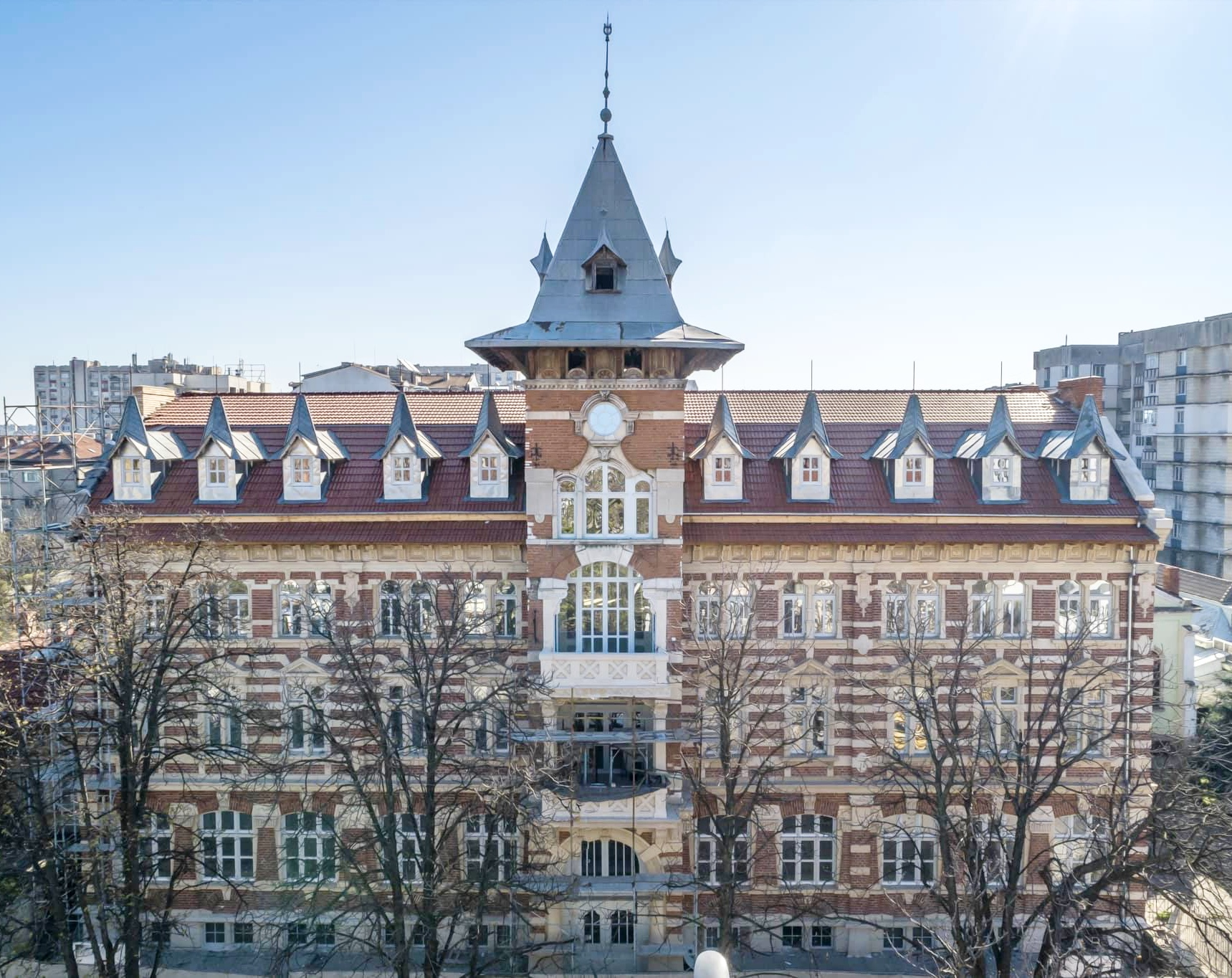 The building is a cultural monument of local importance, dating from 1901 with architect Udo Ribau.